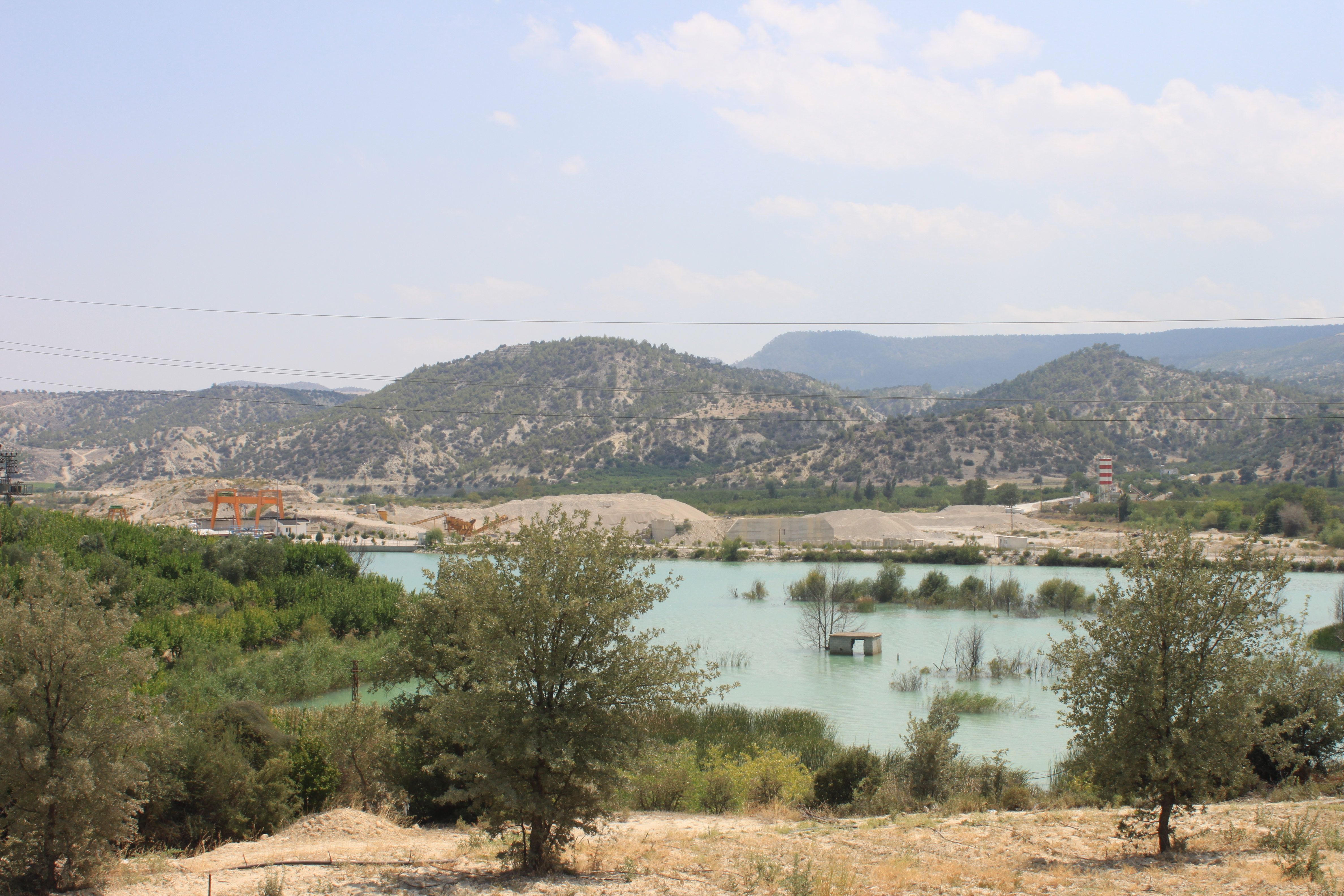 Ermine River power station Azmak near Zeytinçukuru (city of Mut)